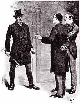 Illustration of the Sherlock Holmes short story The Speckled Band, which appeared in The Strand Magazine in February, 1892. Original caption was "WHICH OF YOU IS HOLMES?"